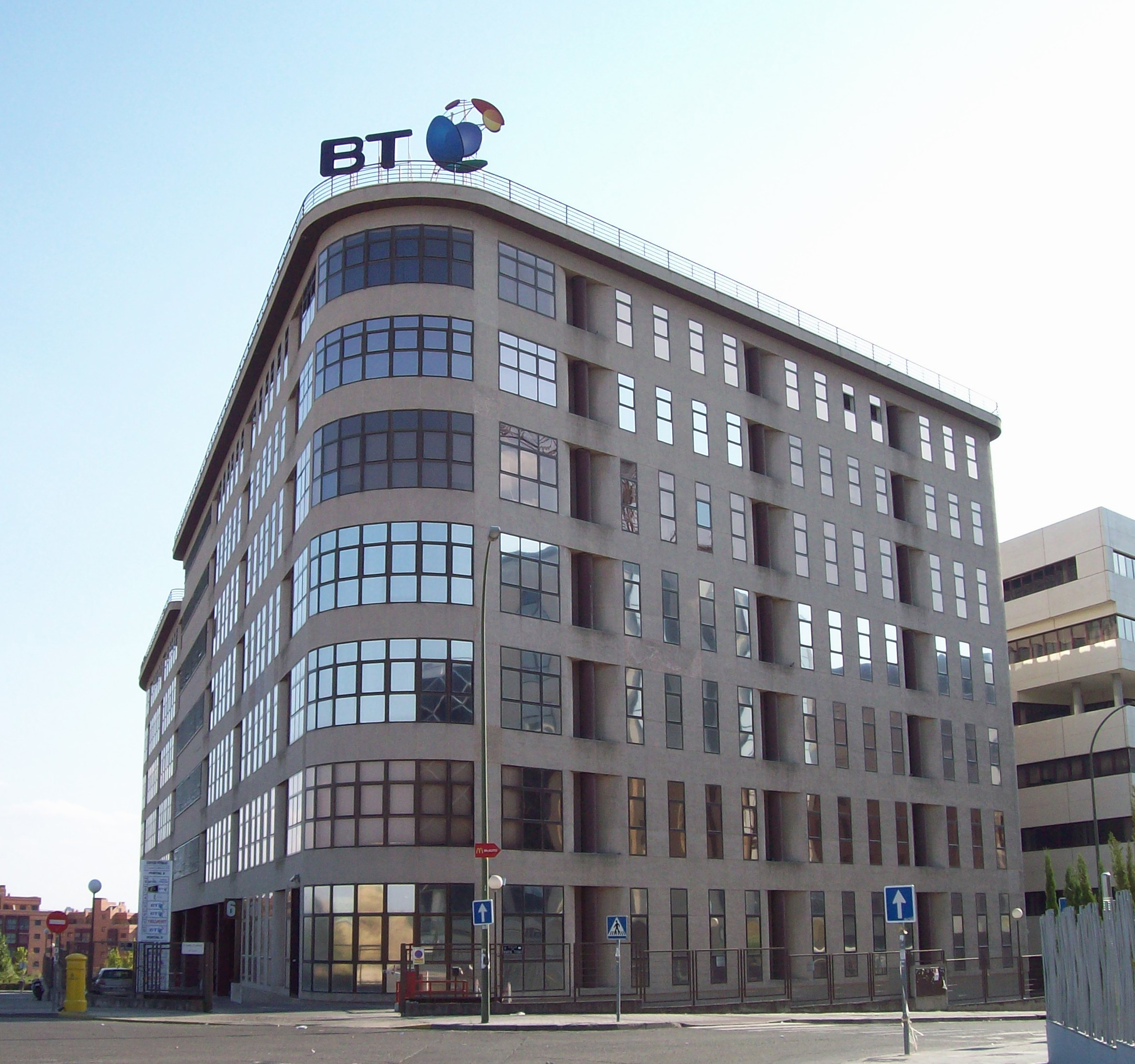 View of BT offices in Madrid (Spain), at 6th Calle de Isabel Colbrand (street) in Fuencarral-El Pardo district.